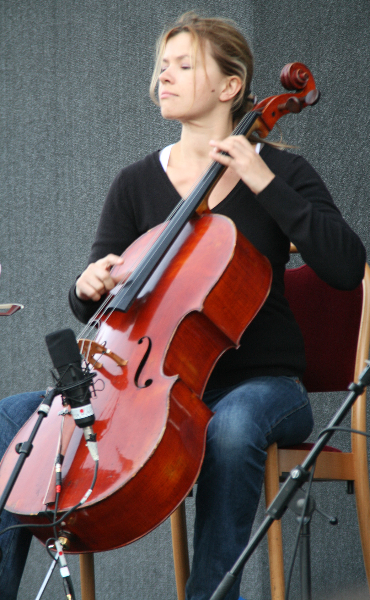 French cellist Mathilde Sternat during a concert of singer Malia at the Rathausplatz in Vienna (Jazz-Fest Wien)